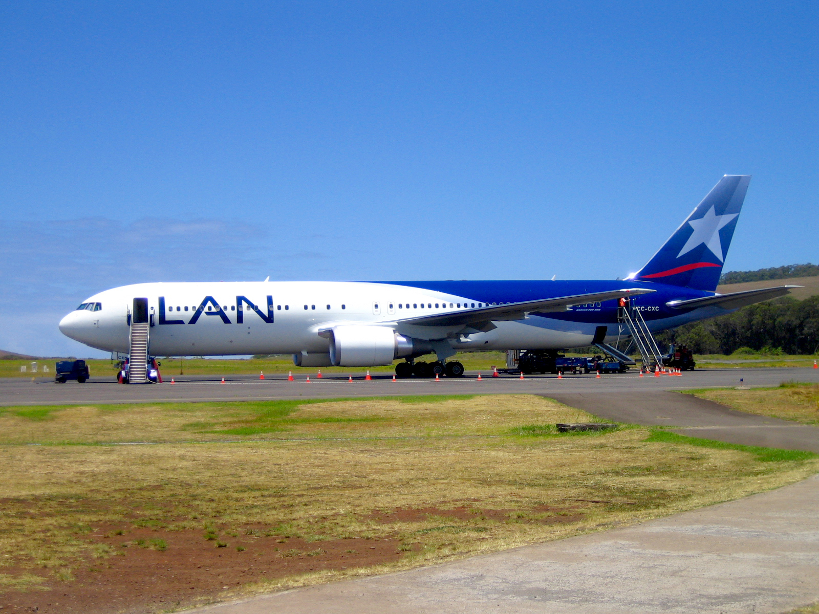 LAN Airlines Boeing 767-300ER at Mataveri Airport (IPC) on Easter Island in January 2008.